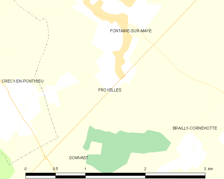 Map of French municipality Froyelles